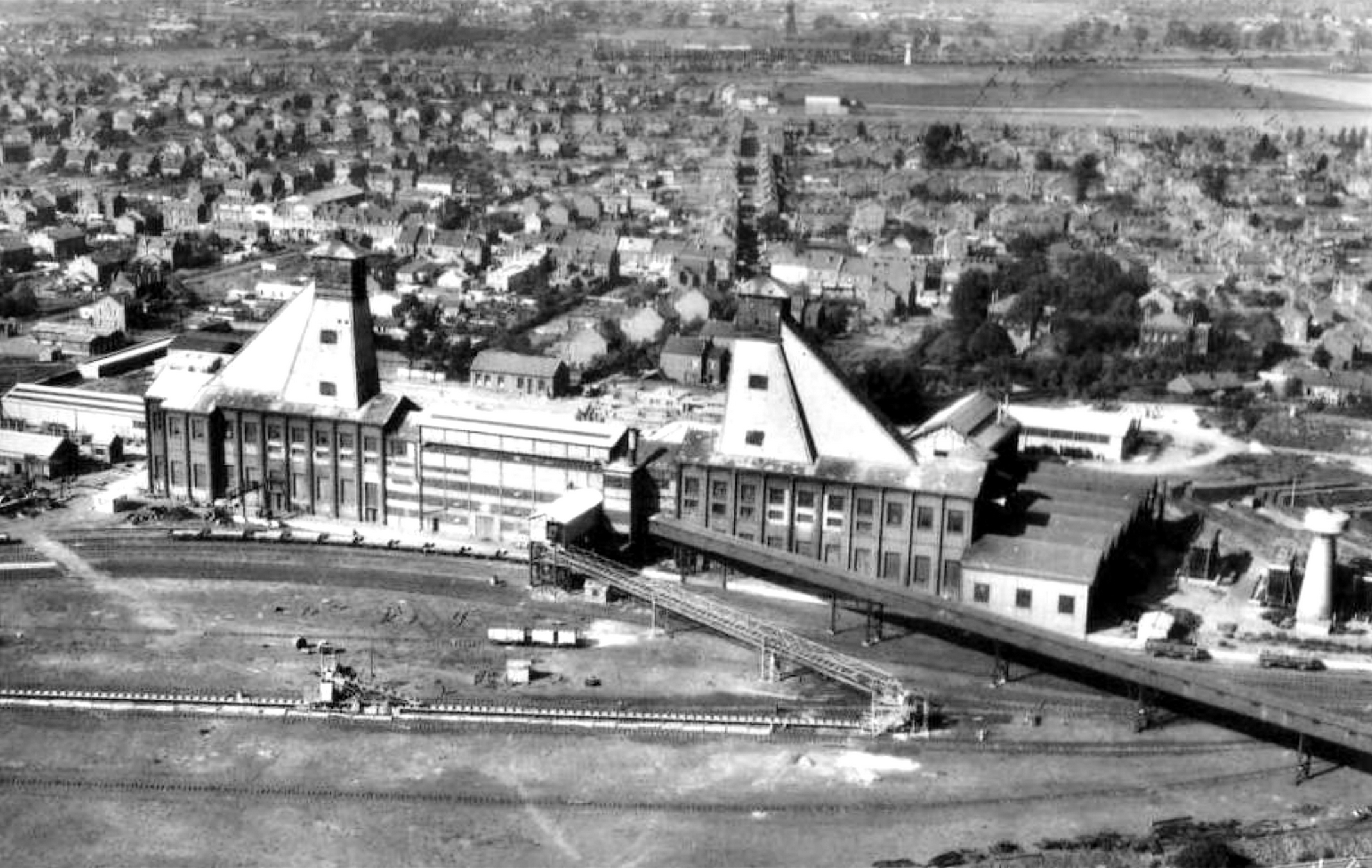 Pit number 3 and 15 at Méricourt, France. Compagnie des mines de Courrières.